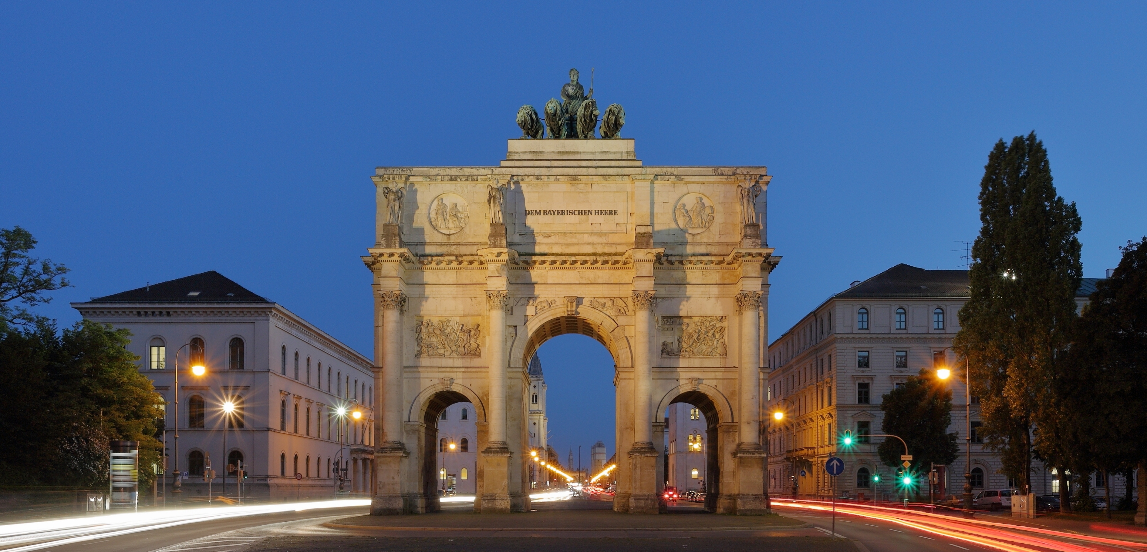 Siegestor in Munich, Germany.